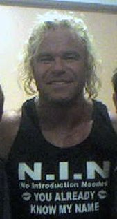 My mate's Camera phone image of pro wrestler Kip James after a 2006 VPW event in Exeter. Touched up and chopped by me using Nero Photosnap viewer.